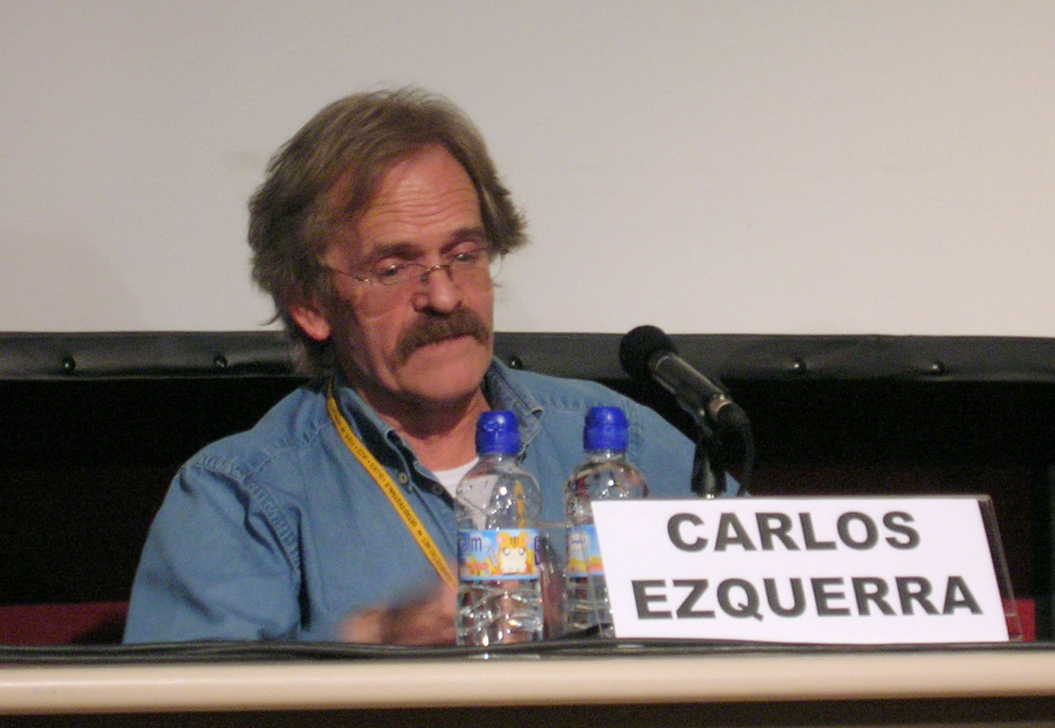 Carlos Ezquerra (born in Ibdes, province of Zaragoza, Spain, 1947 AD, artist from British mag 2000 AD and co-creador of Judge Dredd, Strontium Dog, Bloody Mary and Pilgrim) in IV Getxo Comic Con.